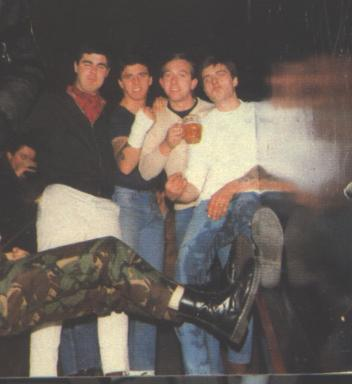 Hoxton Tom McCourt (of the 4-Skins, Carlton Leech (of Rise of the Footsoldier), Gary Dickle and Vince Riordan (of the Cockney Rejects) at the Moonlight Club, west Hampstead, 1980.Hoxton Tom McCourt (of the 4-Skins), Carlton Leech (Rise of the Footsoldier), Gary Dickle and Vince Riordan (of the Cockney Rejects) at the Moonlight Club, West Hampstead, London 1980